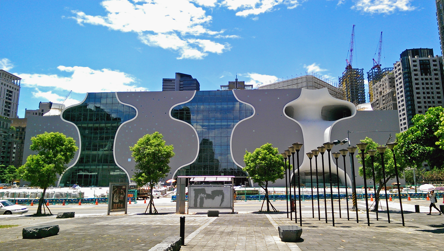 Taichung Metropolitan Opera House, Taichung, Taiwan中文（台灣）: 台中大都會歌劇院 2014.7 施工情況